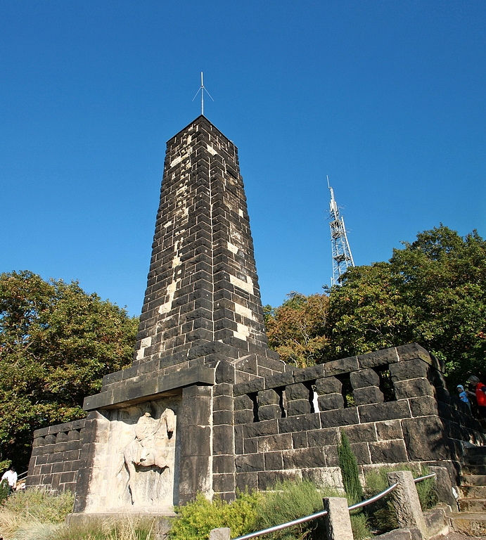 This image shows the memorial for king Albert of Saxony on top of the Windberg (353 metres) in Freital.